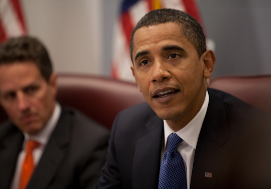 Obama-Biden Transition project